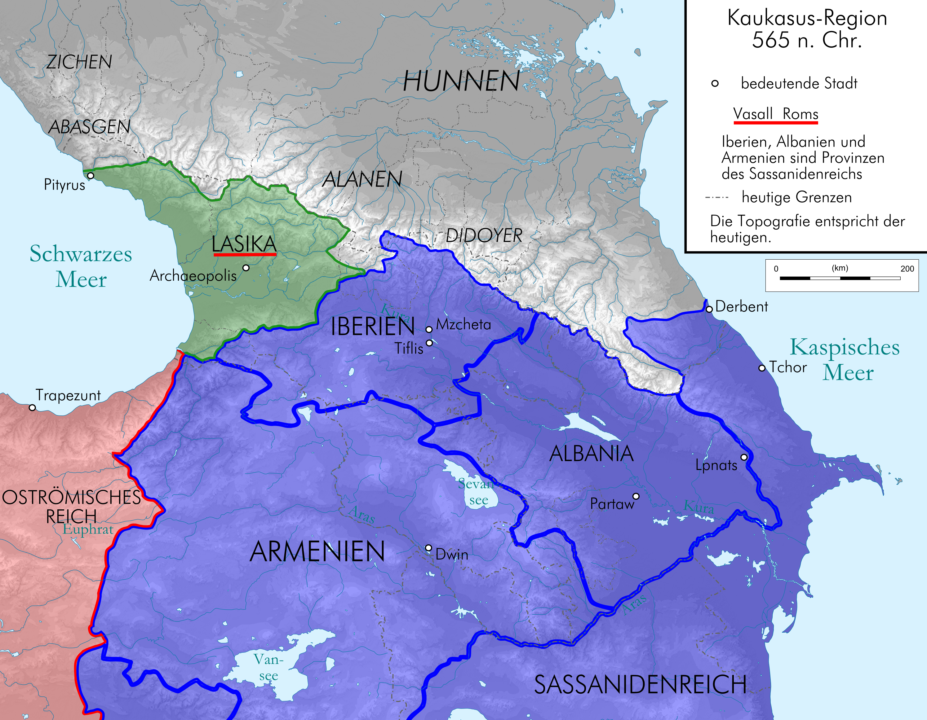 Map of Caucasus around 565 AC in German.